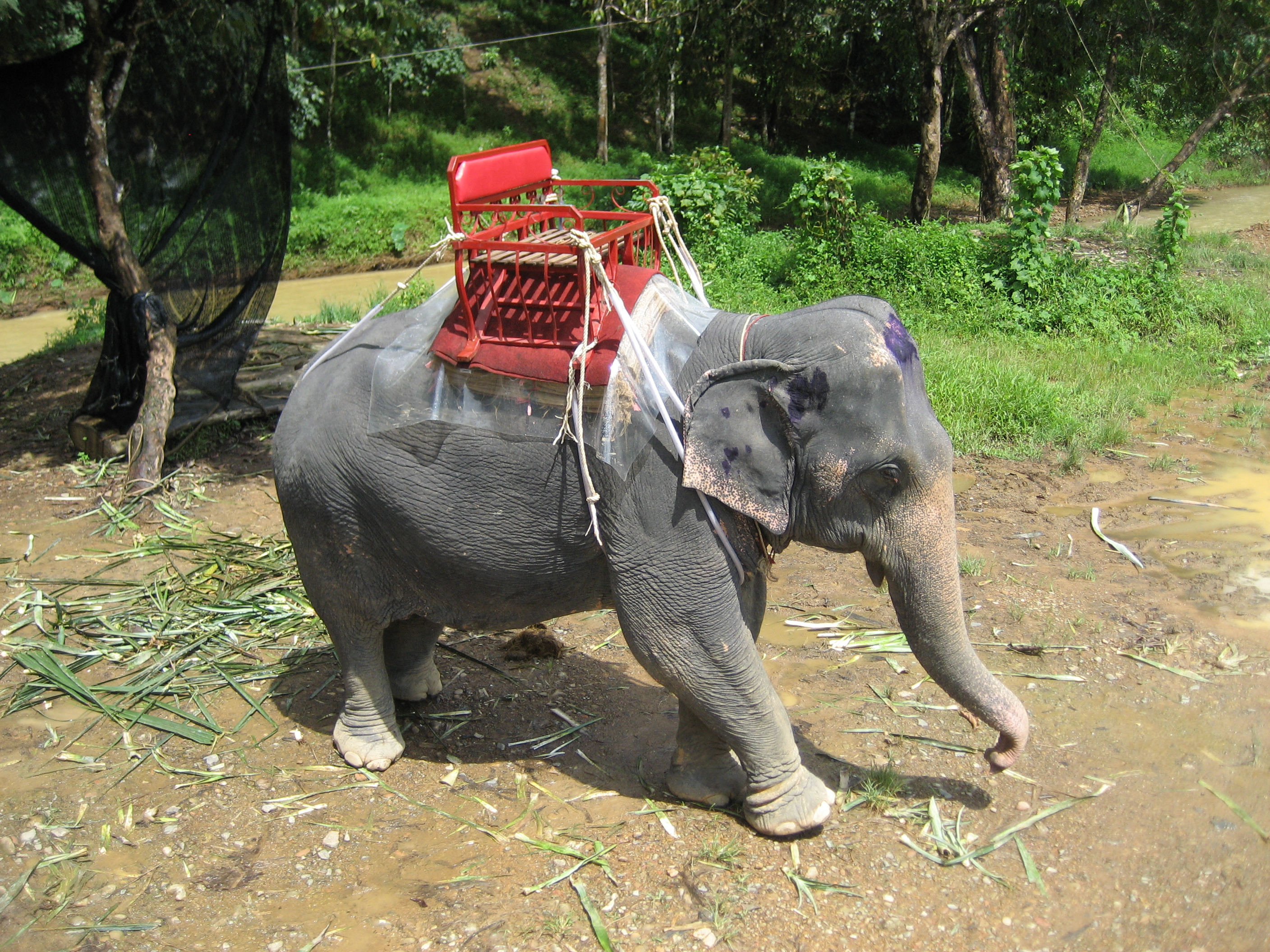 Thailand, Khao Sok, Elephant